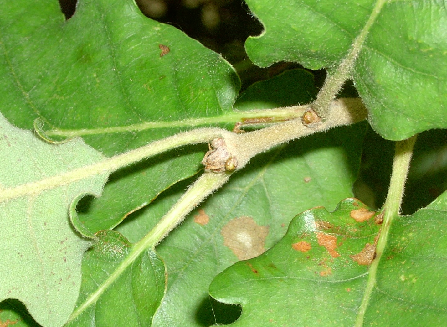 Quercus pubescens. Bielinek, NW Poland.